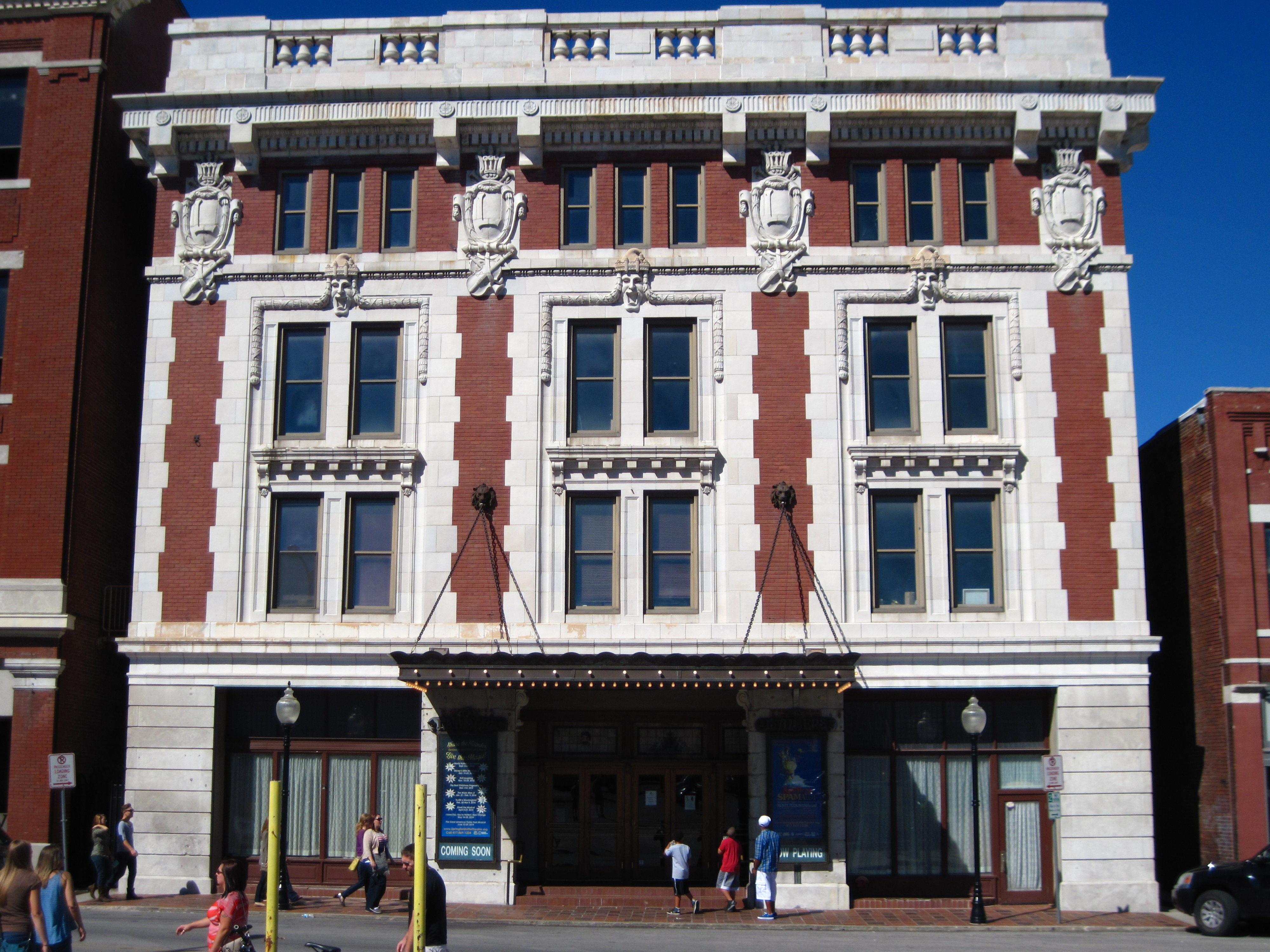 Landers Theater, 311 E. Walnut Springfield